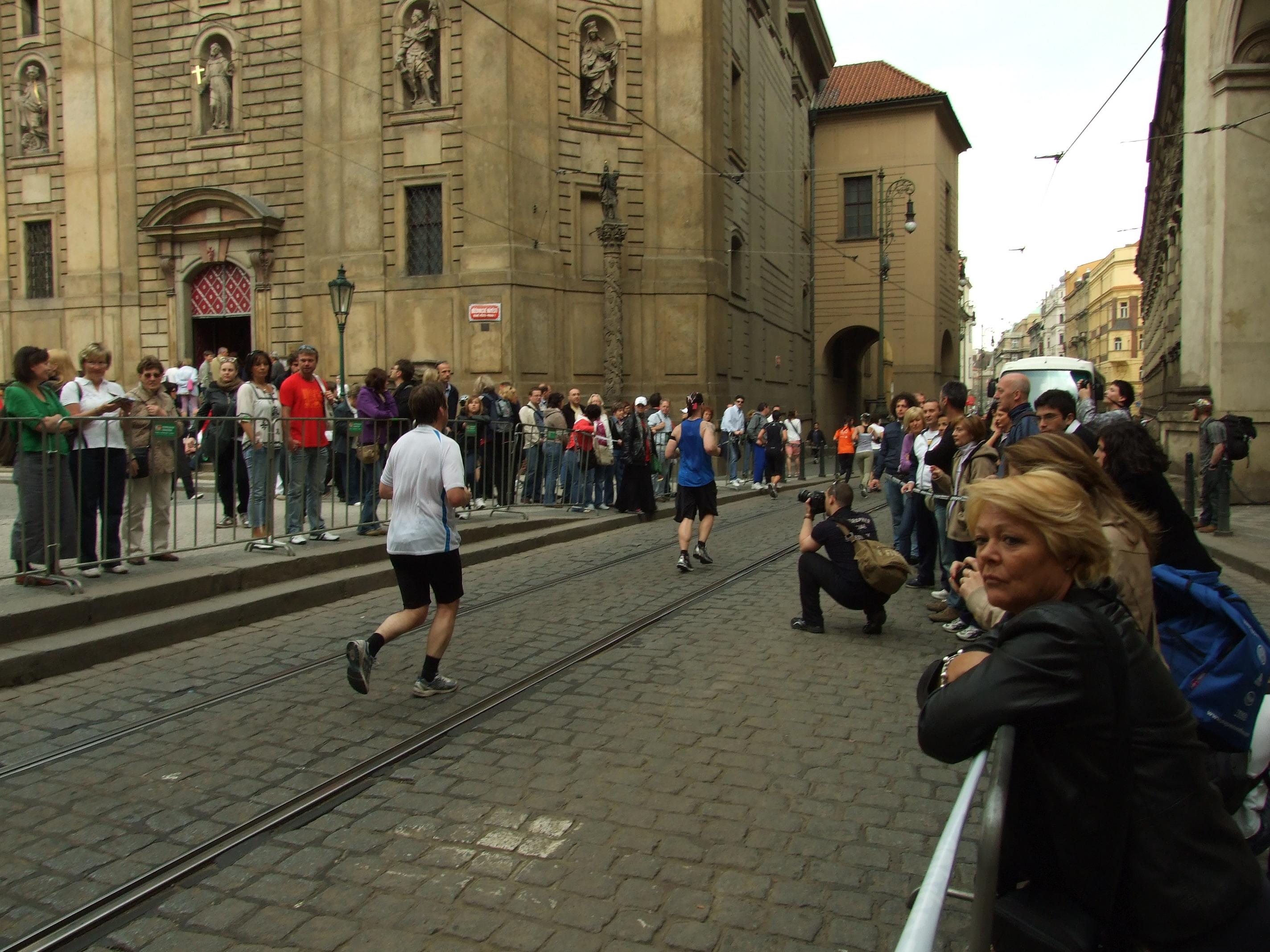 Prague International Marathon 2010 - Křižovnická street, Prague, CZ